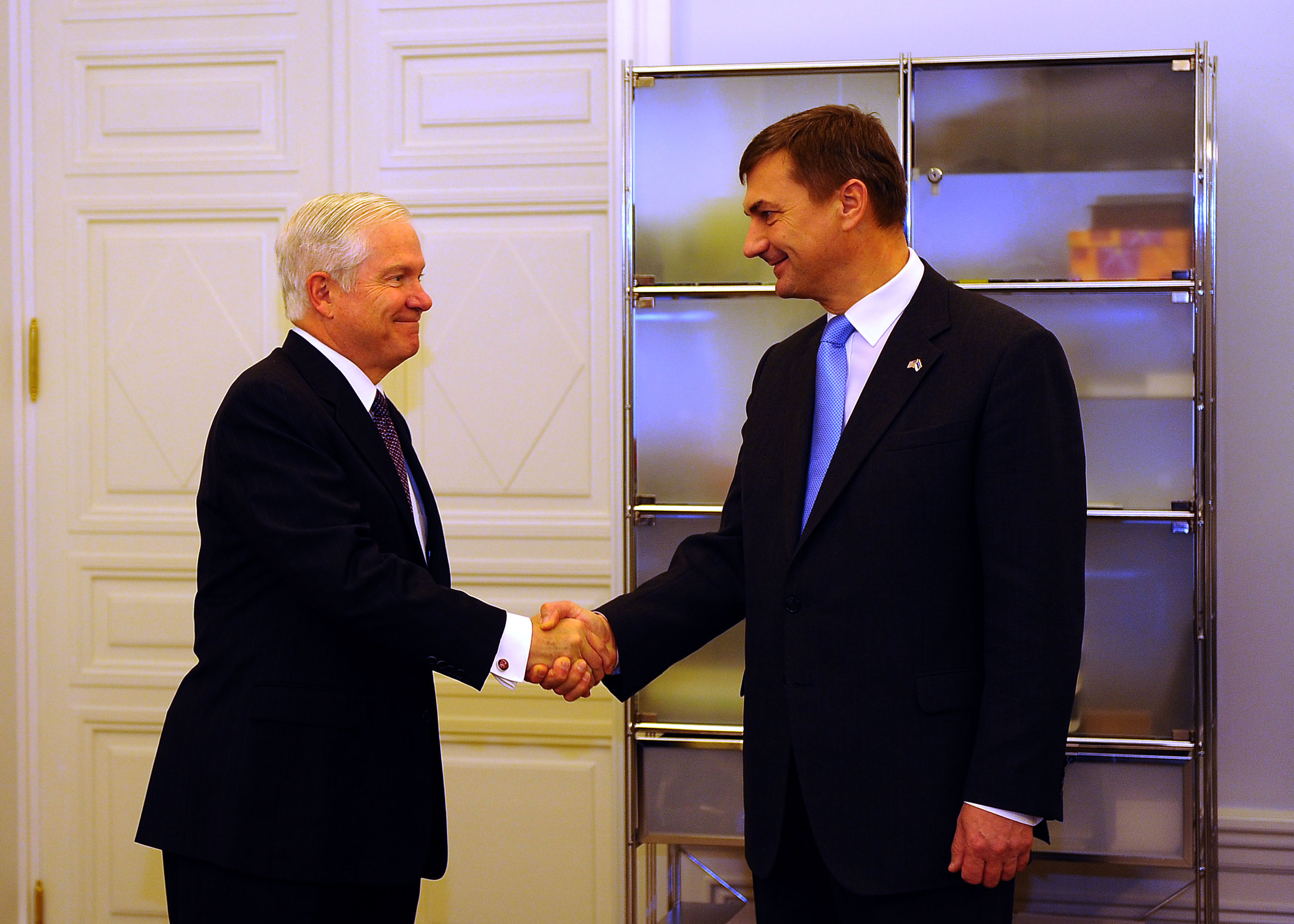 Estonian Prime Minister Andrus Ansip with Robert M. Gates in 2008.